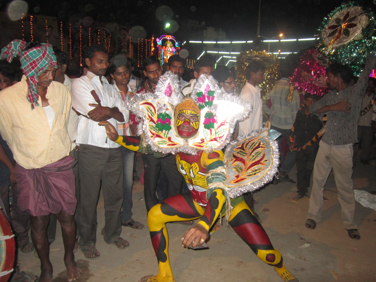 Street tiger dance-a Andhra-in a festival